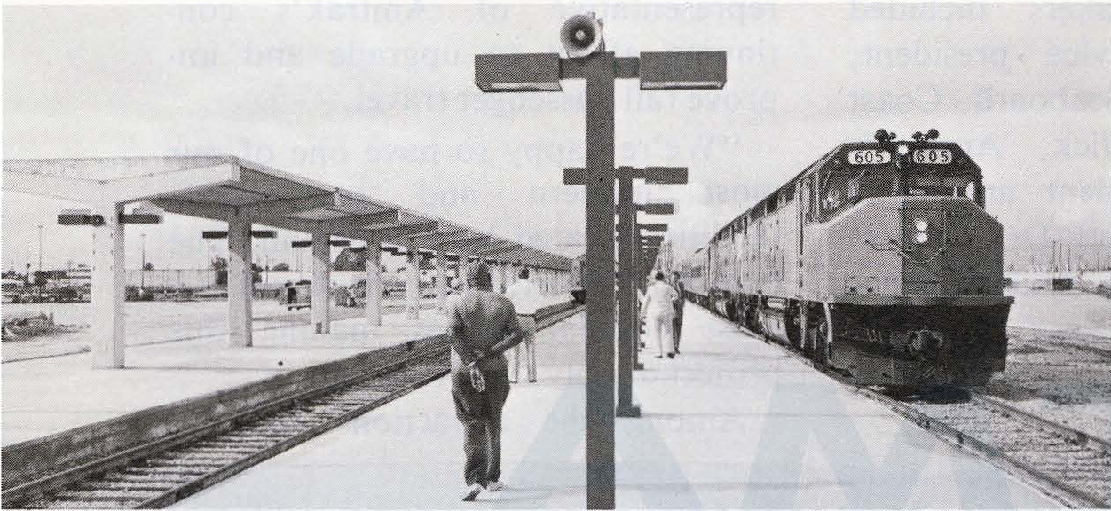 The first train to leave the new Miami station on June 20, 1978. The Silver Meteor left at 9:10am with Jim McClellan at the controls.